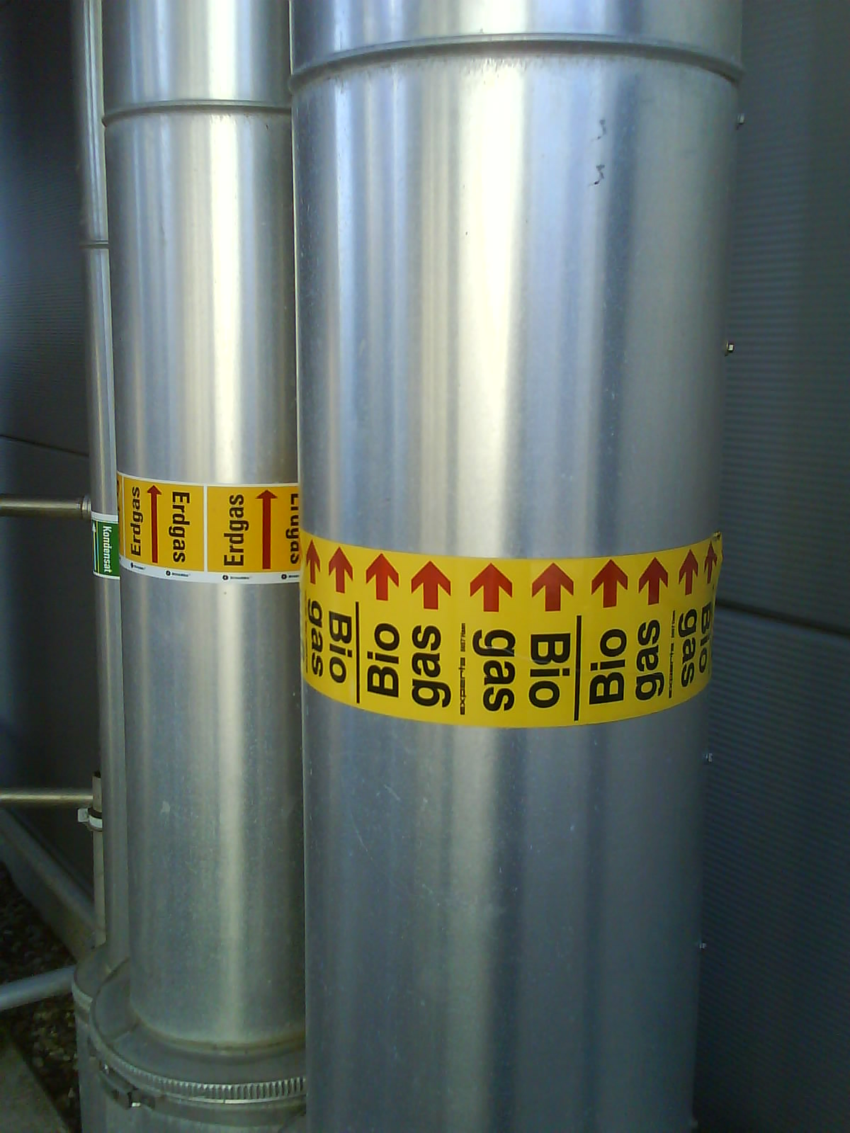 Author: Alex Marshall, Clarke Energy